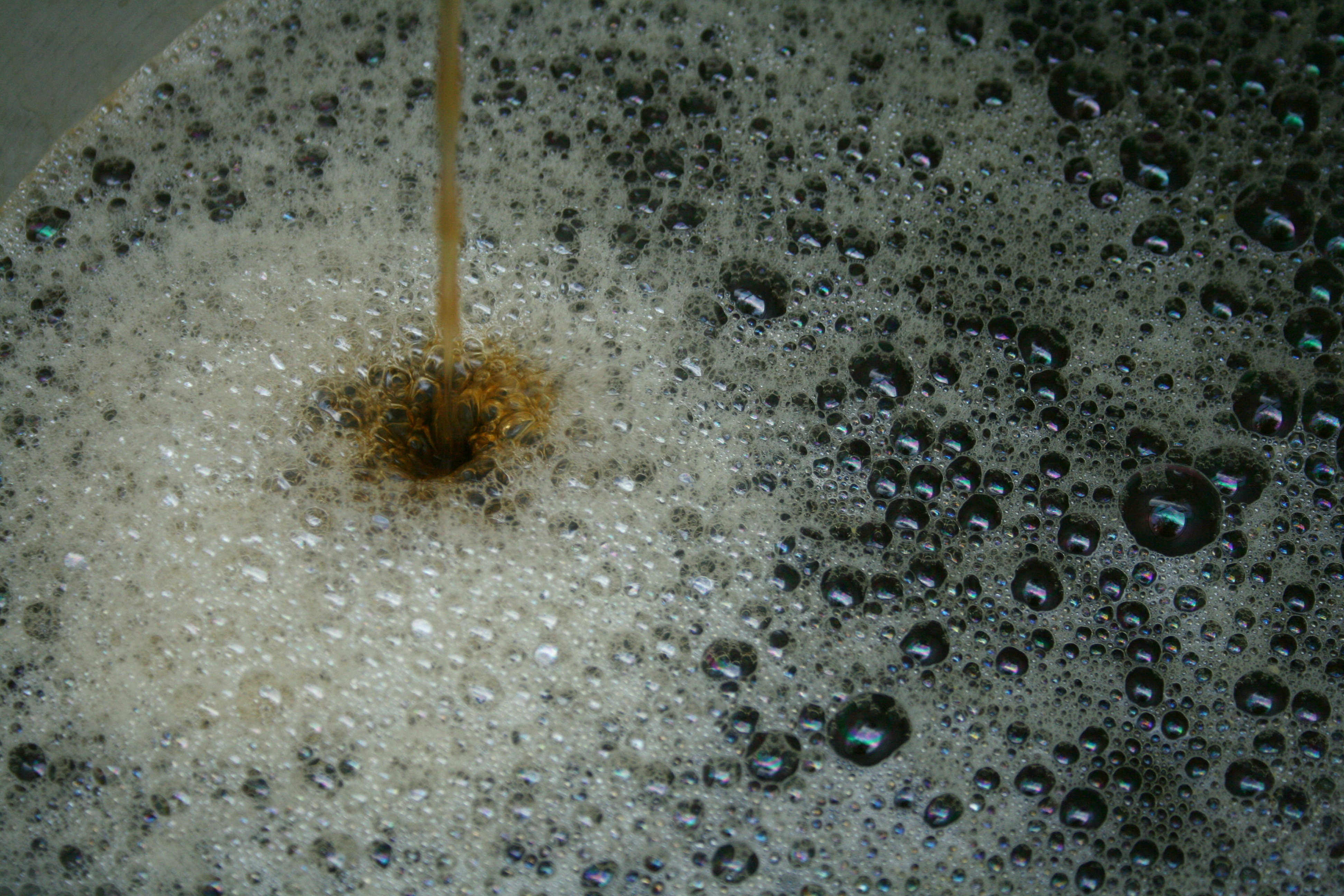 First wort run-off in The Don's customised all-grain homebrew waterfall setup at the Brew Master Store at 1900 East Geer Street in Durham, North Carolina.